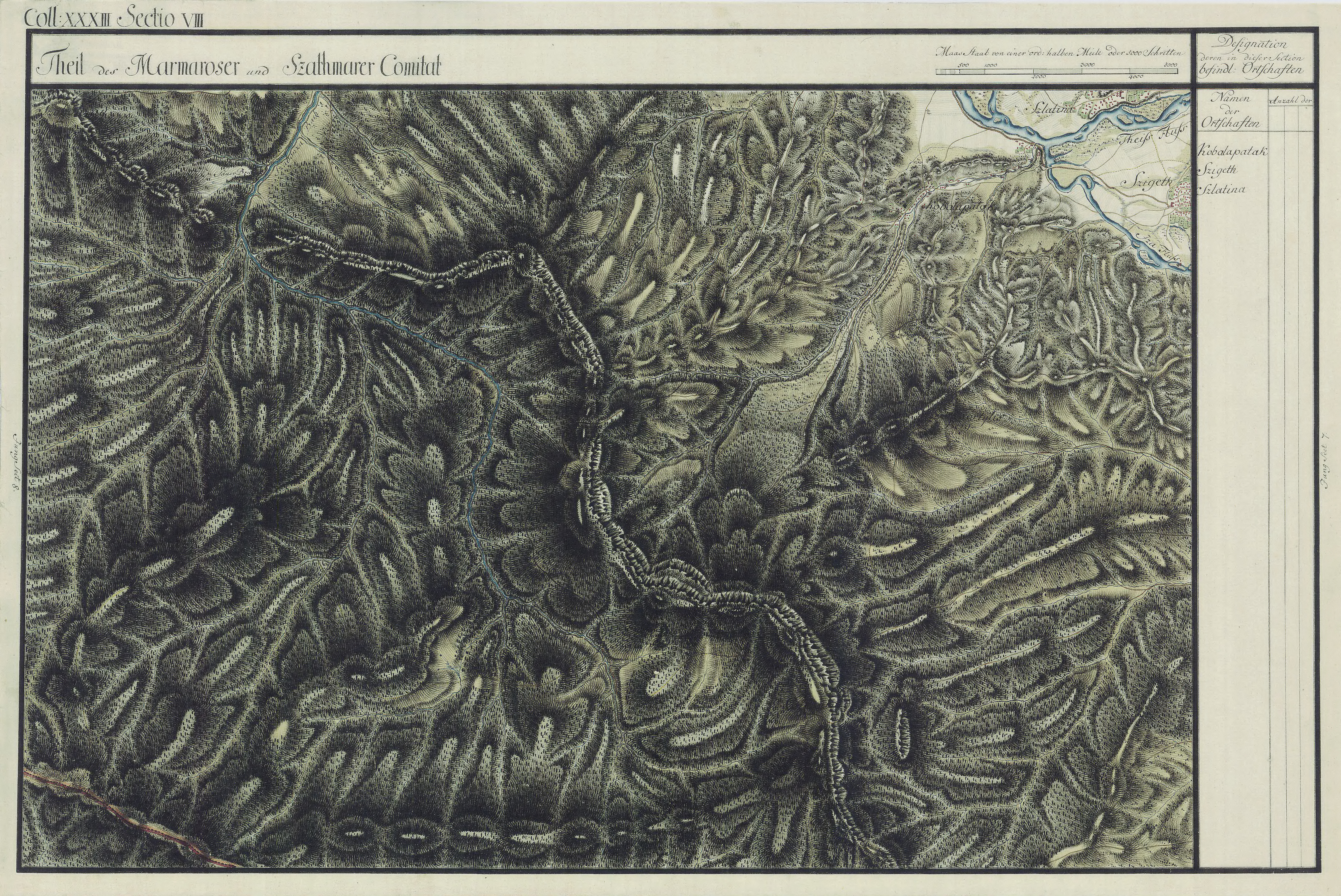 Maramureş County, 1769-1773. Josephinische Landesaufnahme pg.33-08